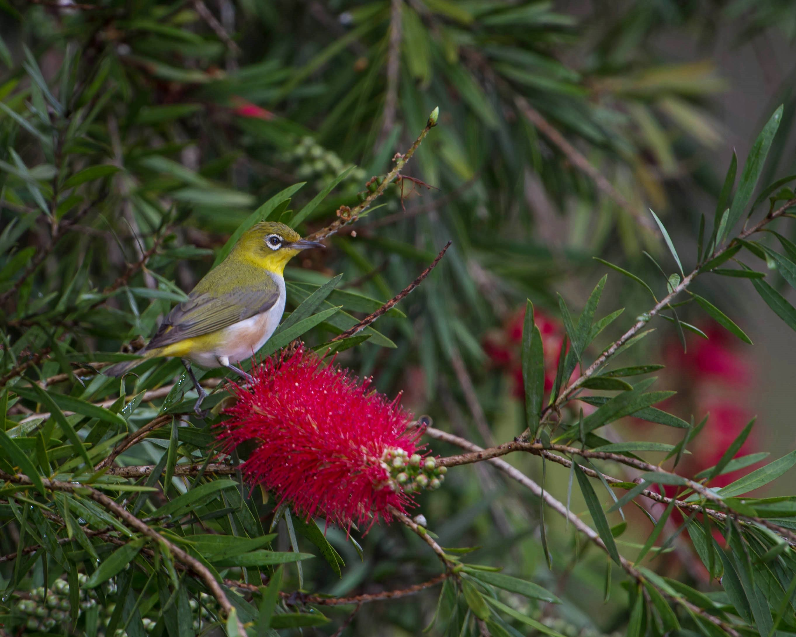 Female of Chestnut-flanked White-eye (Zosterops erythropleurus). Doi Inthanon Royal Project, Doi Inthanon, Chiang Mai, Thailand